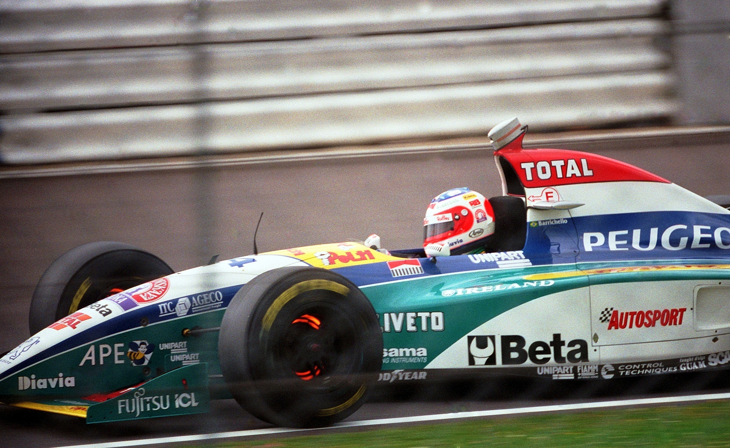 Rubens Barrichello - Jordan 195 braking for Copse at the 1995 British Grand Prix, Silverstone